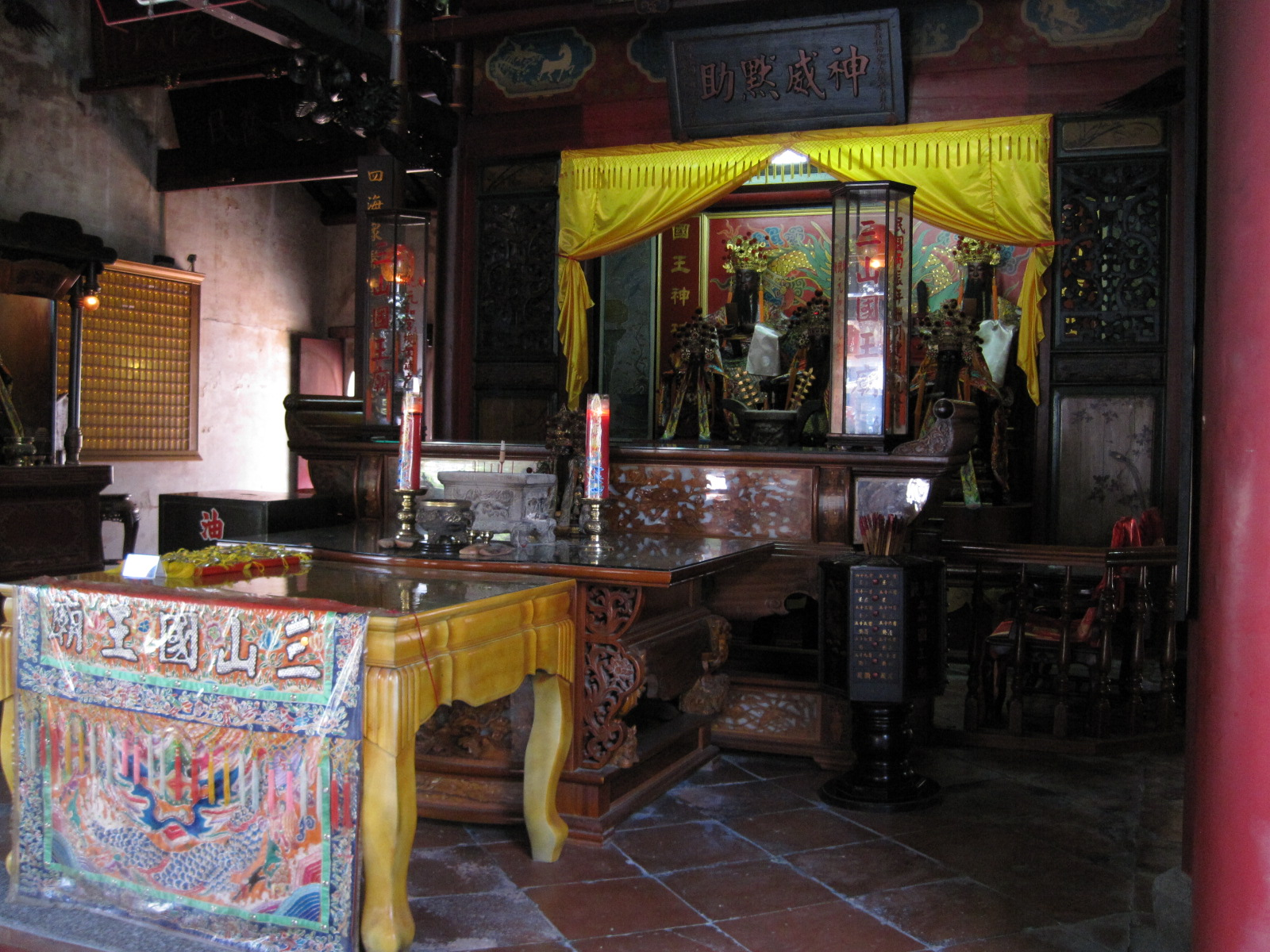 The inside of Sanshan Guowang Temple in Tainan, Taiwan.